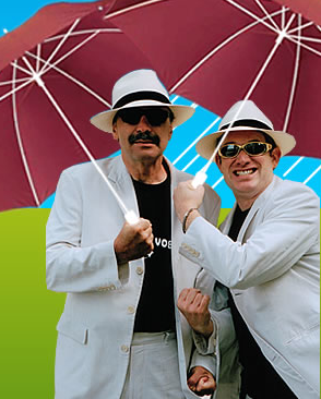 music duo plueckhahn and vogel from berlin, germany